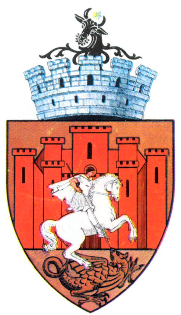 Interwar coat of arms of Suceava, Suceava County, Kingdom of Romania.